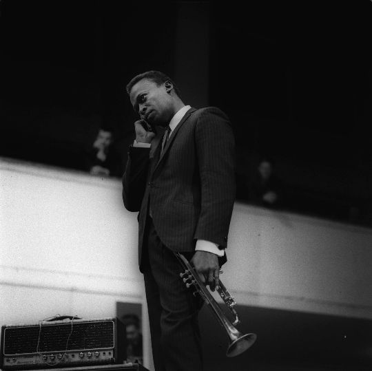 Photograph of the American trumpet player Miles Davis while performing in Helsinki, Messuhalli.